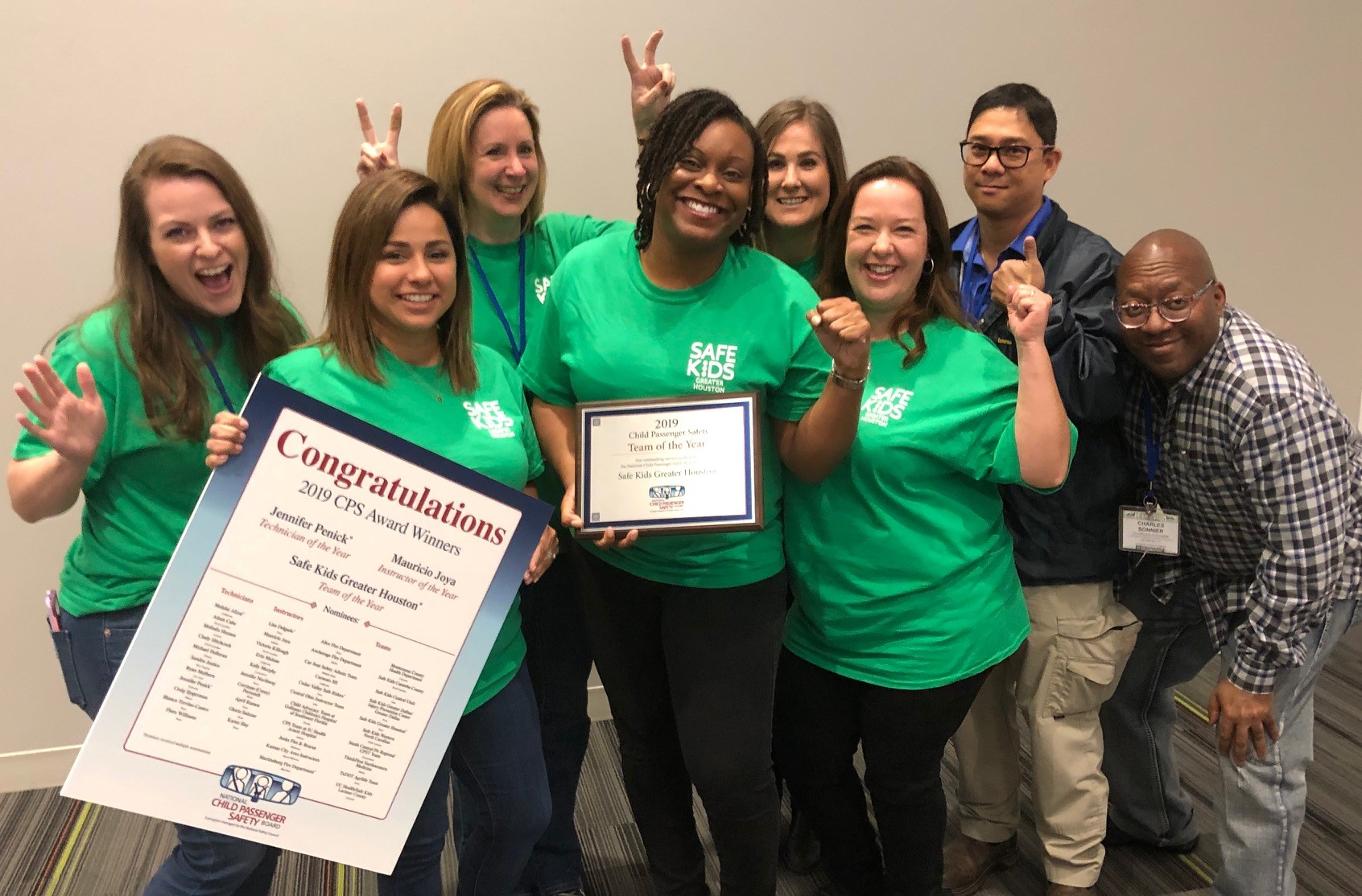 Safe Kids Greater Houston was presented the Team of the Year award at Lifesavers in Louisville, Ky.